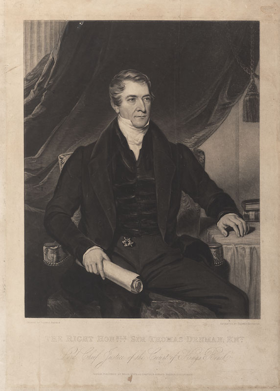 Thomas Denman, 1st Baron Denman (1779-1854)